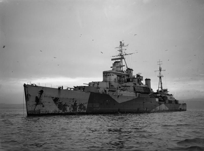 British light cruiser HMS NEWFOUNDLAND at anchor at Greenock.